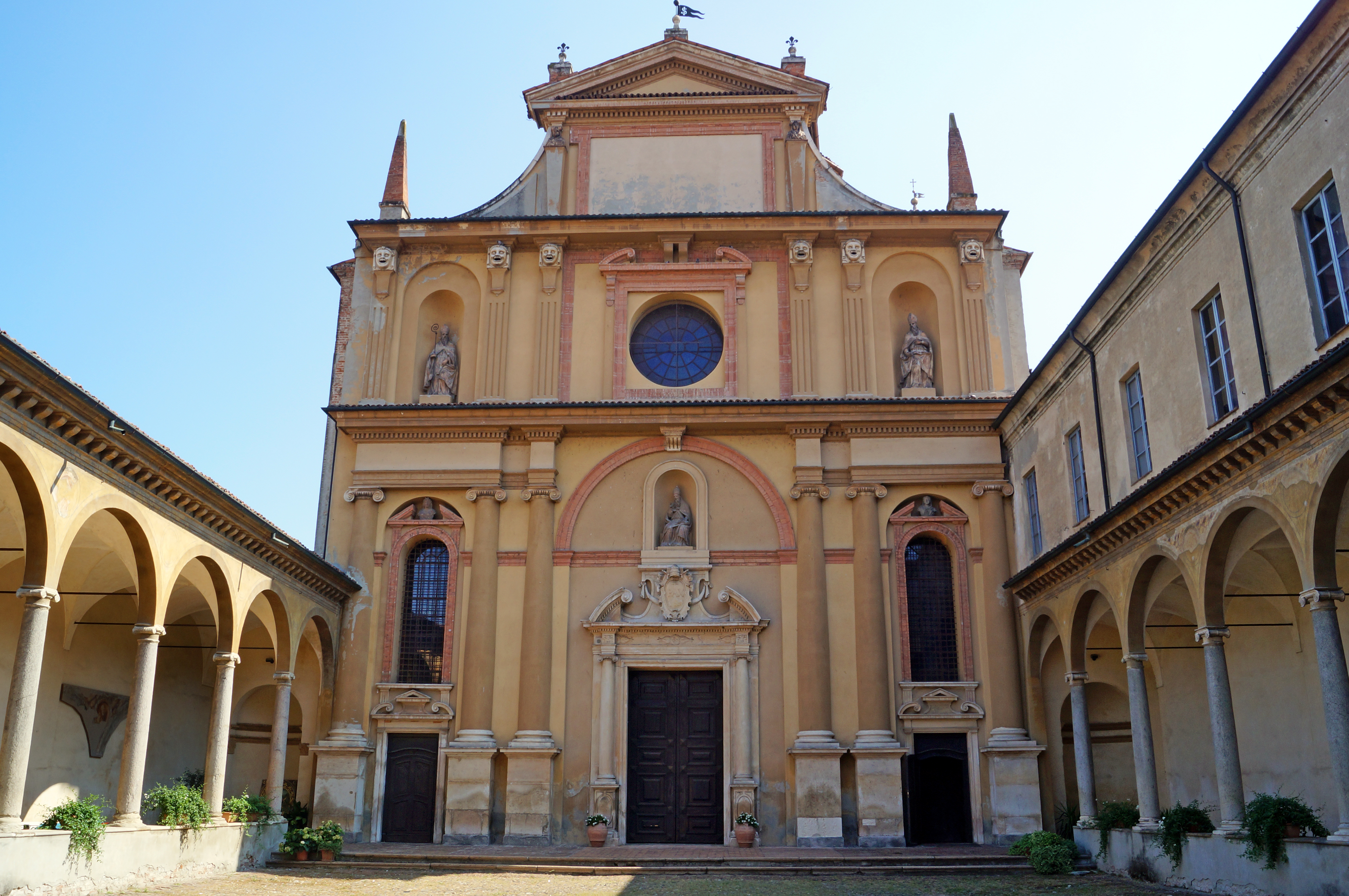 Facade of the Church of St. Sixtus